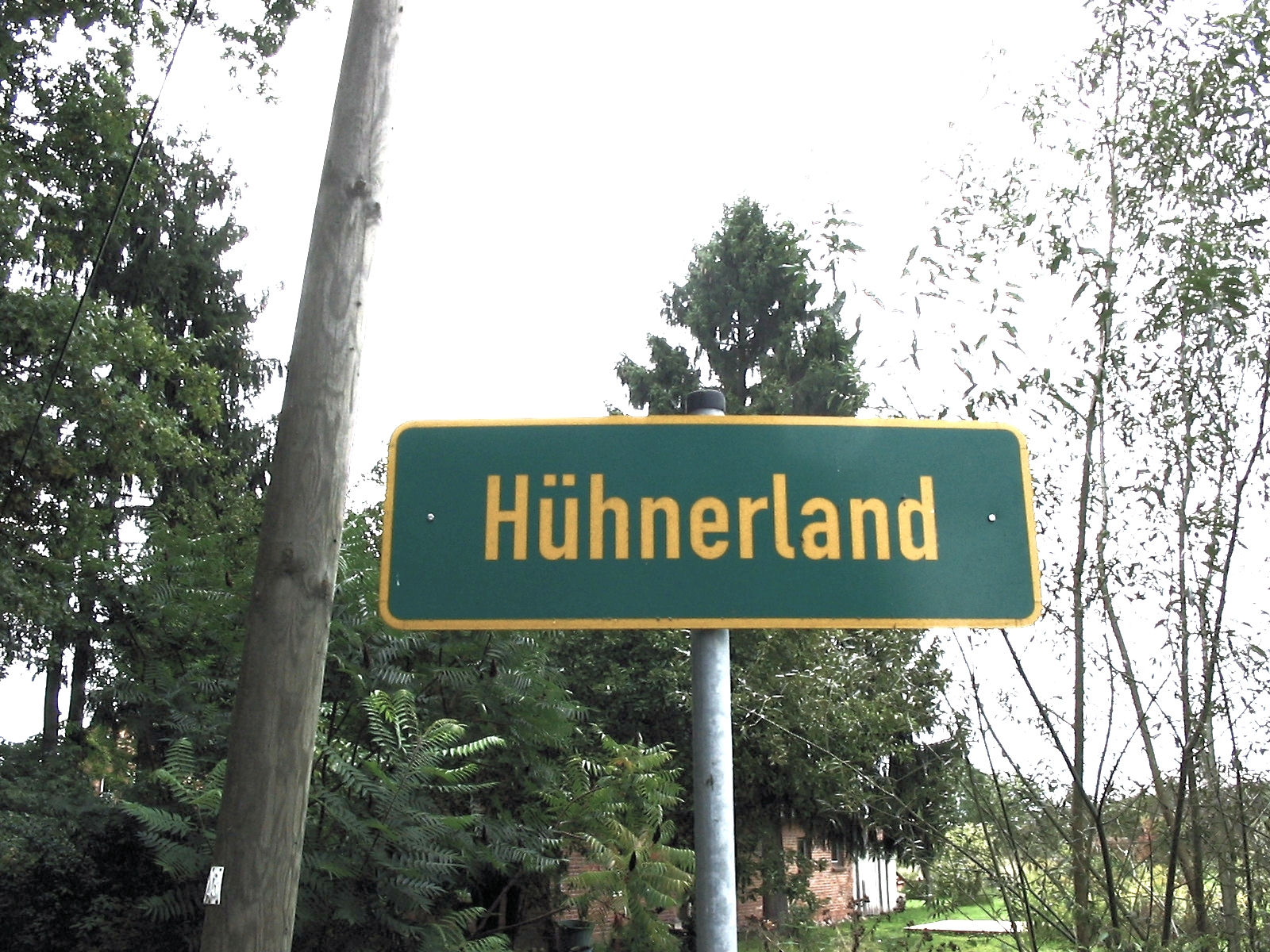 City limit sign in Hühnerland, Mecklenburg-Vorpommern, Germany